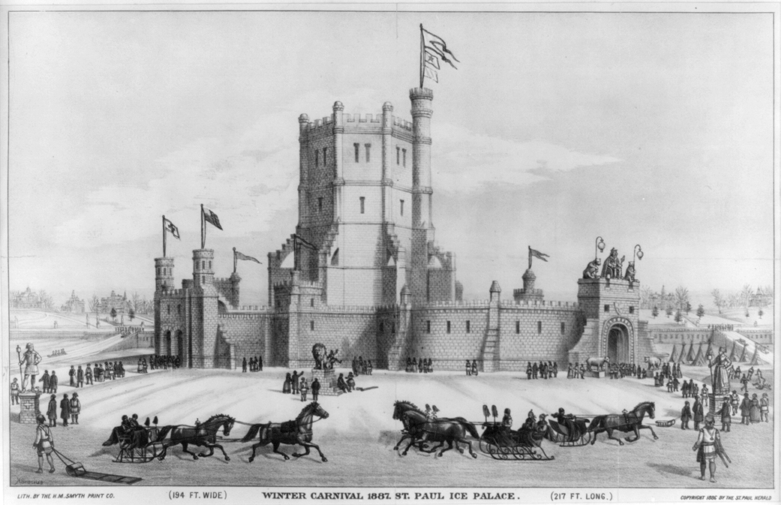 Print shows ice castle constructed during the winter carnival in Saint Paul, Minnesota, also people riding in horsedrawn sleighs, some with sleds, toboggans, and snowshoes, and tipis in the background.